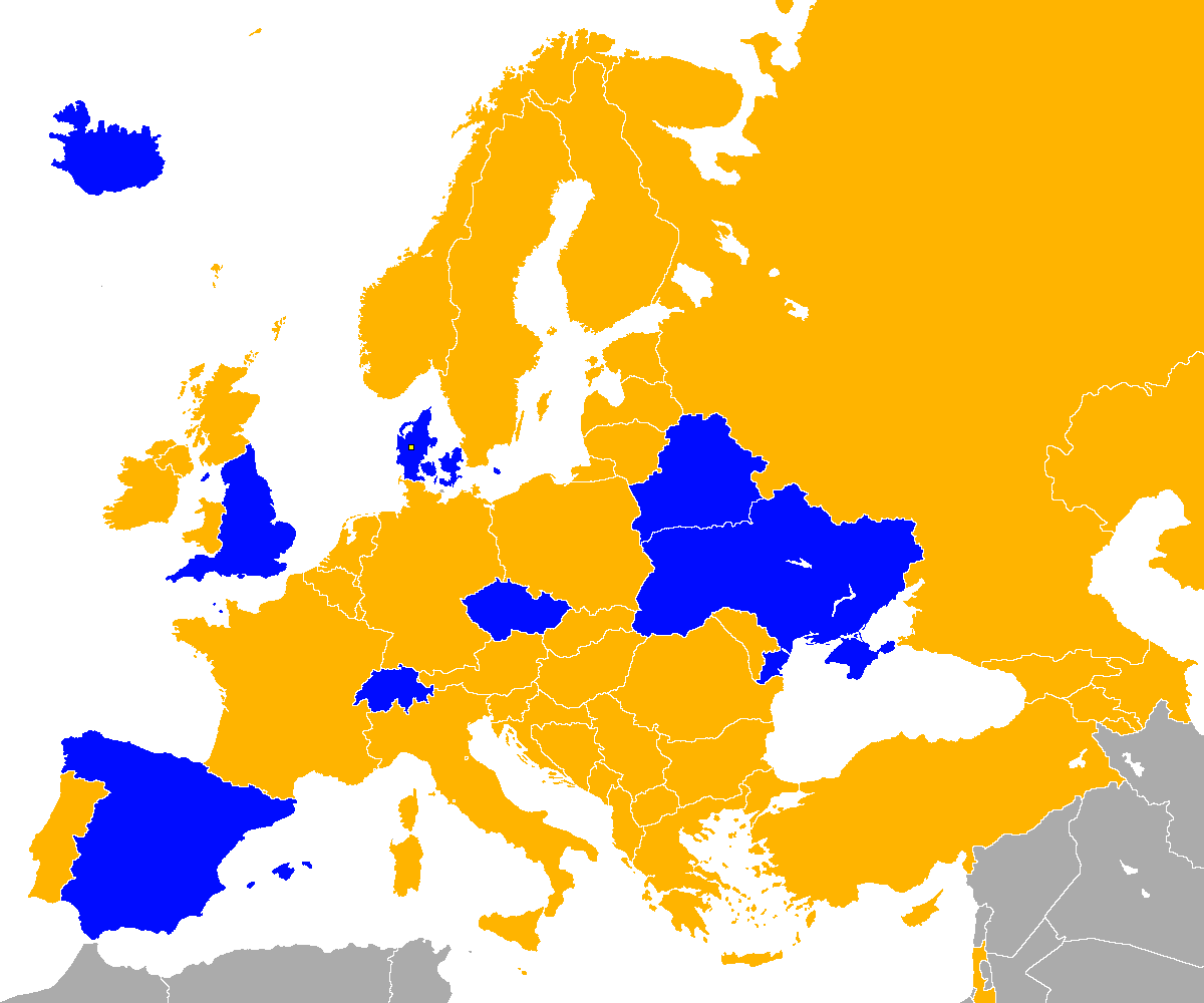 BLUE = Qualified for 2011 Euro U-21 YELLOW = Failed to qualify for 2011 Euro U-21 GRAY = Country not a member of UEFA